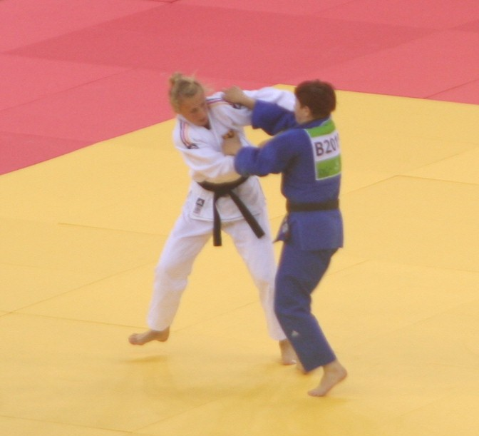 Trajdos (NED) vs Trstenjak (SLO) at the gold final of the 2015 European Games